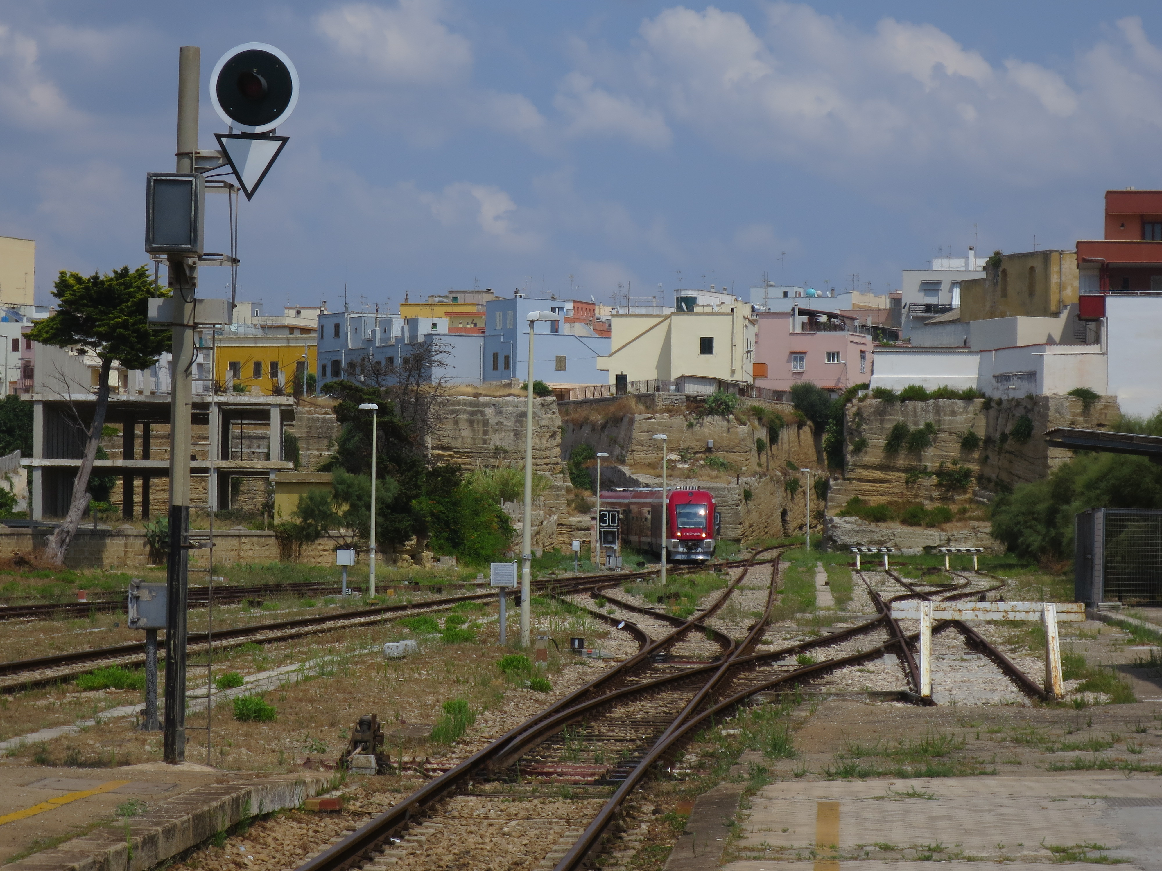 Gallipoli (Apulia, Italy) Station. Incomming Train from Lecce. Line going right to Casarano.